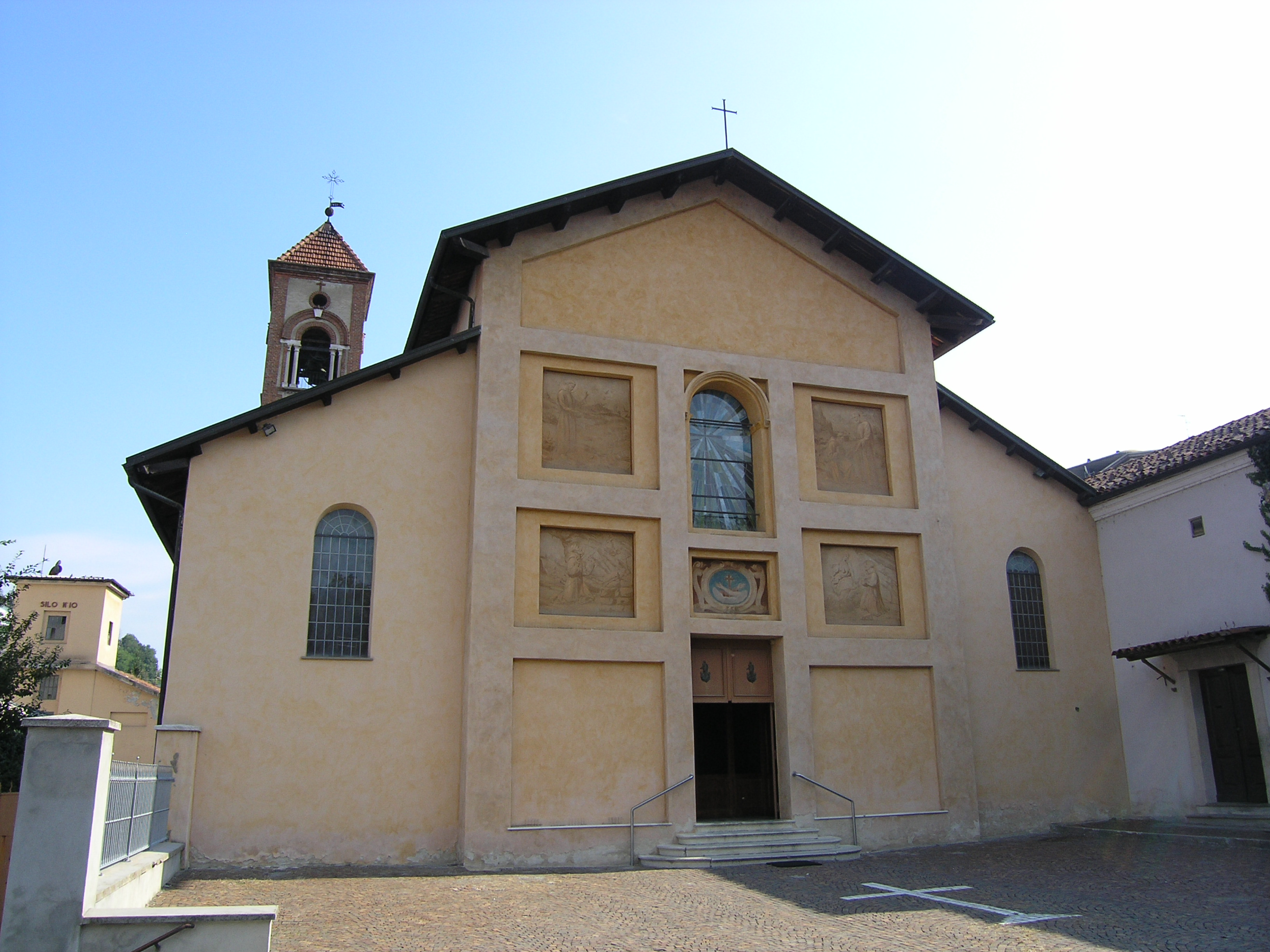 Church of the convent of the Friars Capuchin, Ceva (Italy)